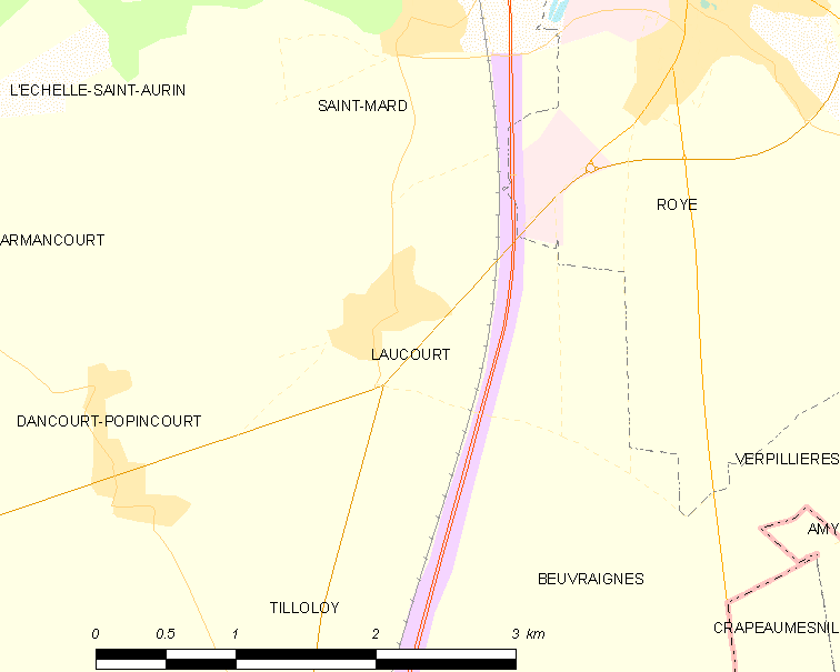 Map of French municipality Laucourt